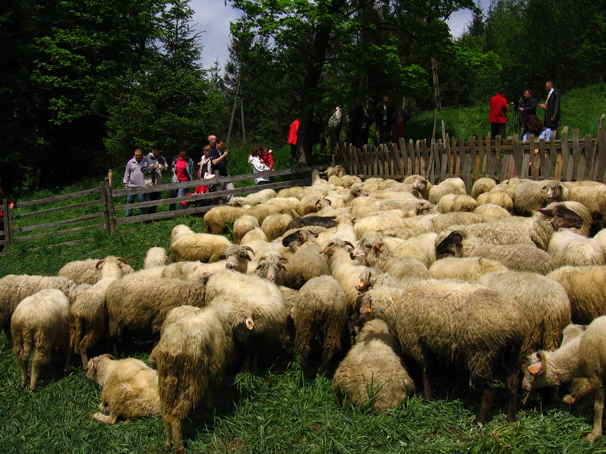 A spring redyk in Korbielów, gmina Jeleśnia, Poland.